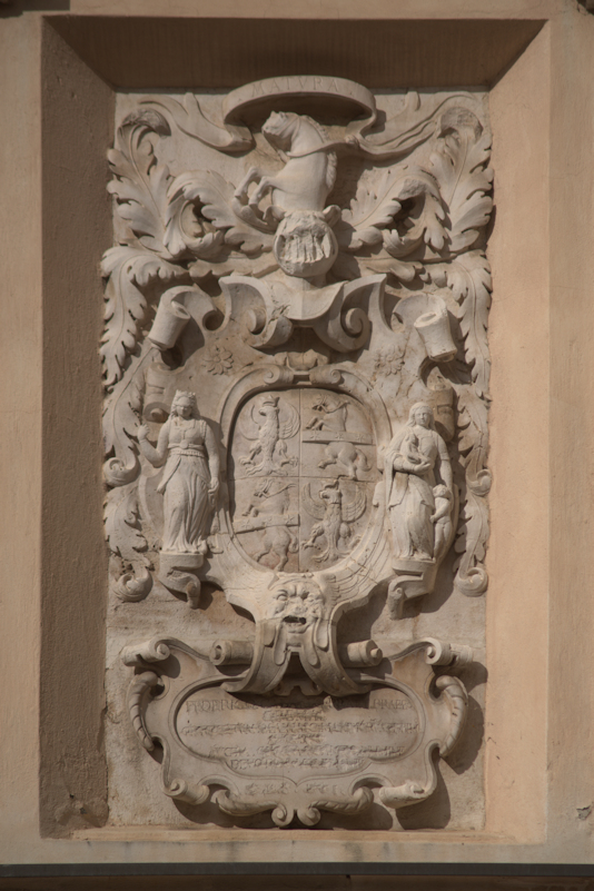 Coat of arm of Cavalli family on the town hall of Crema (Italy)